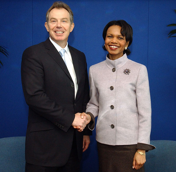 U.S. Secretary of State Condoleezza Rice (right) meets with U.K. Prime Minister Tony Blair (left) during her trip to the London Meeting on Supporting the Palestinian Authority. London, England